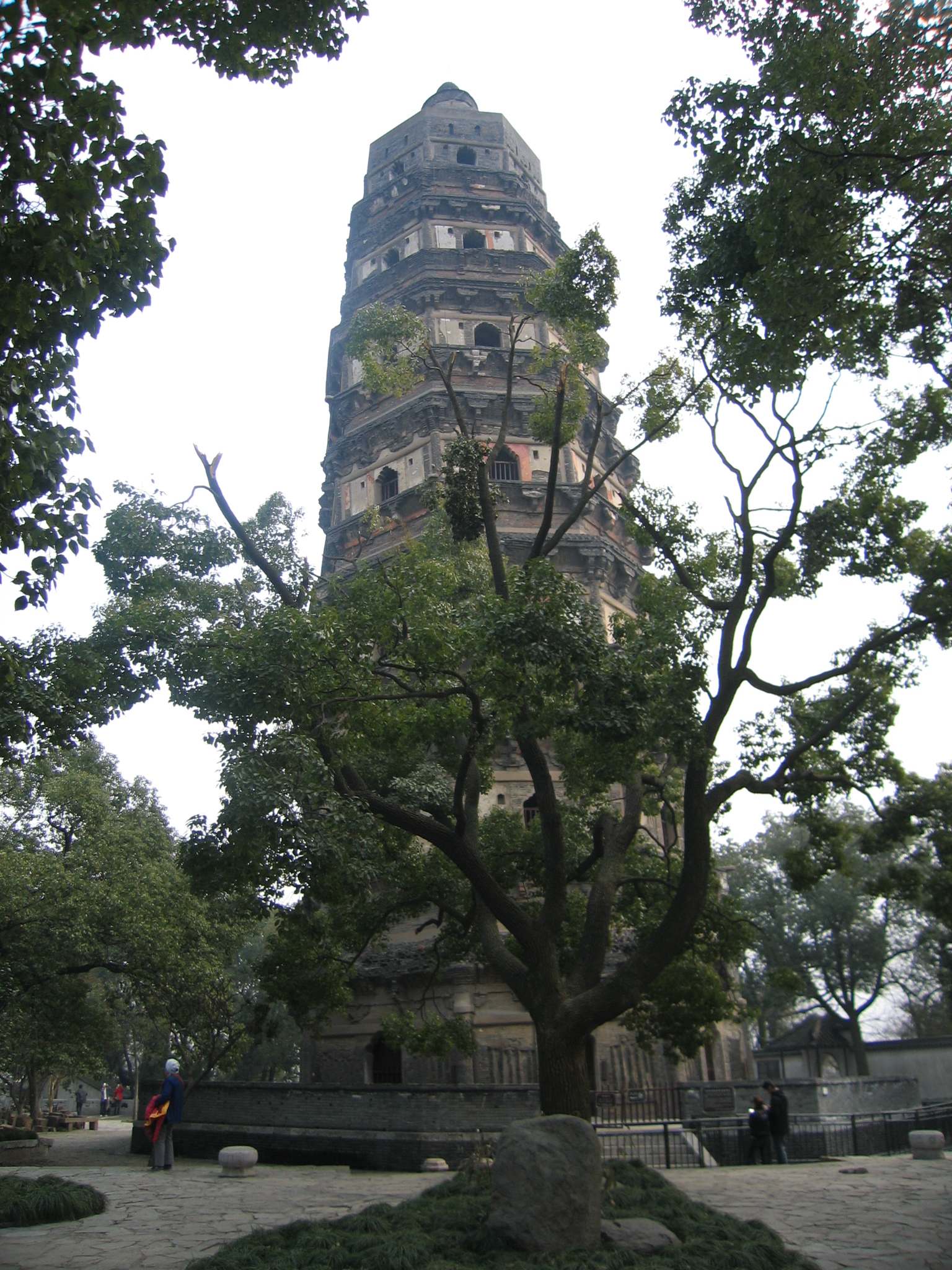 Yunyansi Pagoda at Tiger Hill in Suzhou.